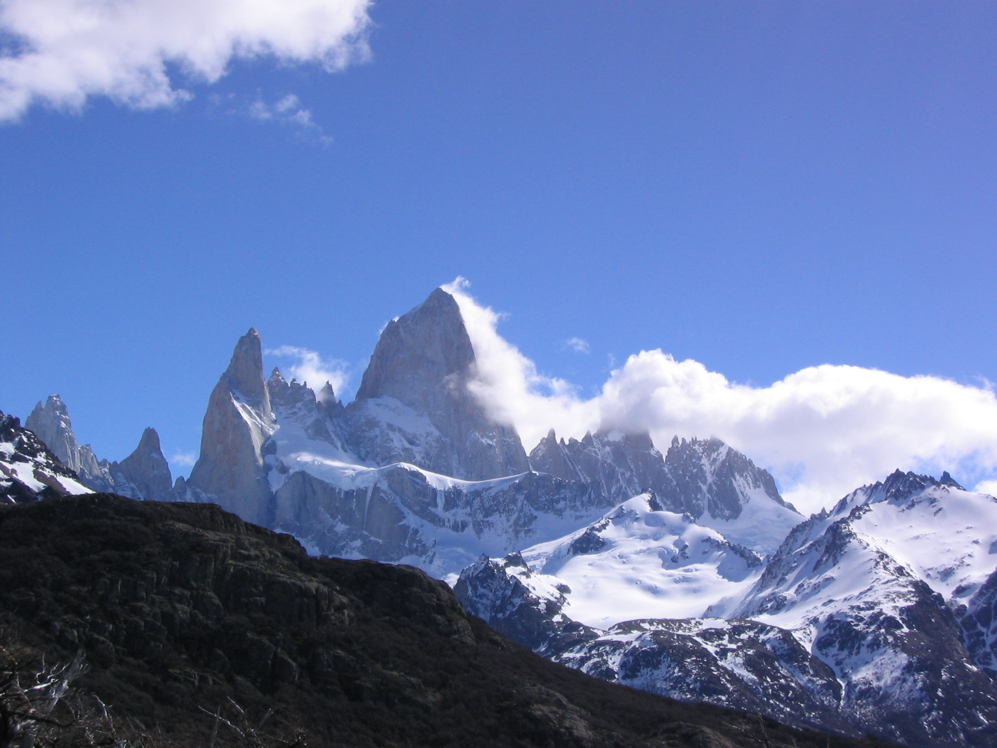 Mount Fitzroy, seen as something of a zenith for climbers. It get seriously windy down in Patagonia, and several climbers have lost their lives climbing to the summit of this mountain.